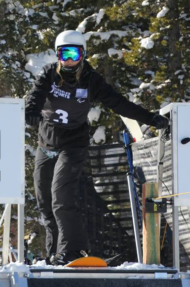 Portrait of Australian Snowboard Cross Joany Badenhorst, 2014 Australian Paralympic Team Athlete